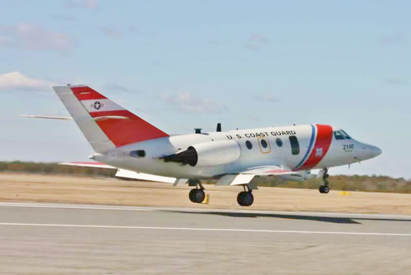 A USCG HU-25 Guardian (Dassault Falcon 20) of the US Coast Guard